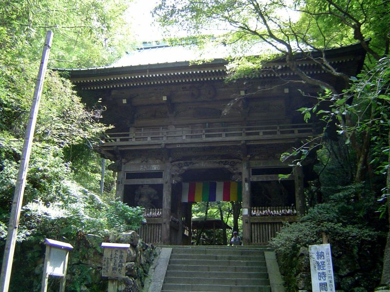 Sefukuji temple,temple gate, Izumi (Osaka).